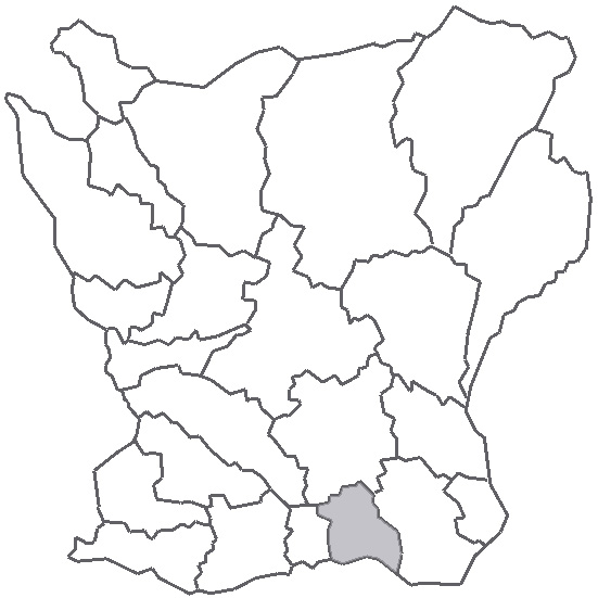 Map describing the location of Herrestad Hundred in the province of Skåne, Sweden.